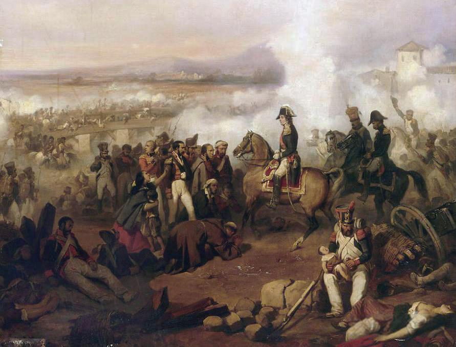 Derived from File:LargeBattleofOportobyBeaume.jpg